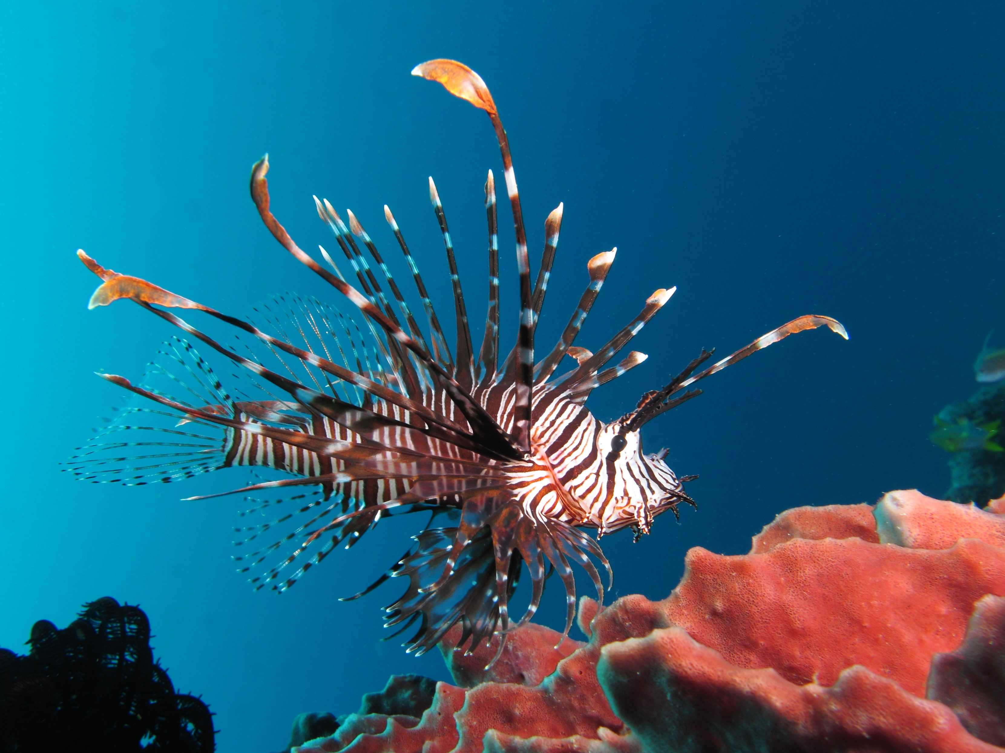 Red lionfish (Pterois volitans) near Gilli Banta Island (near Komodo, Indonesia)